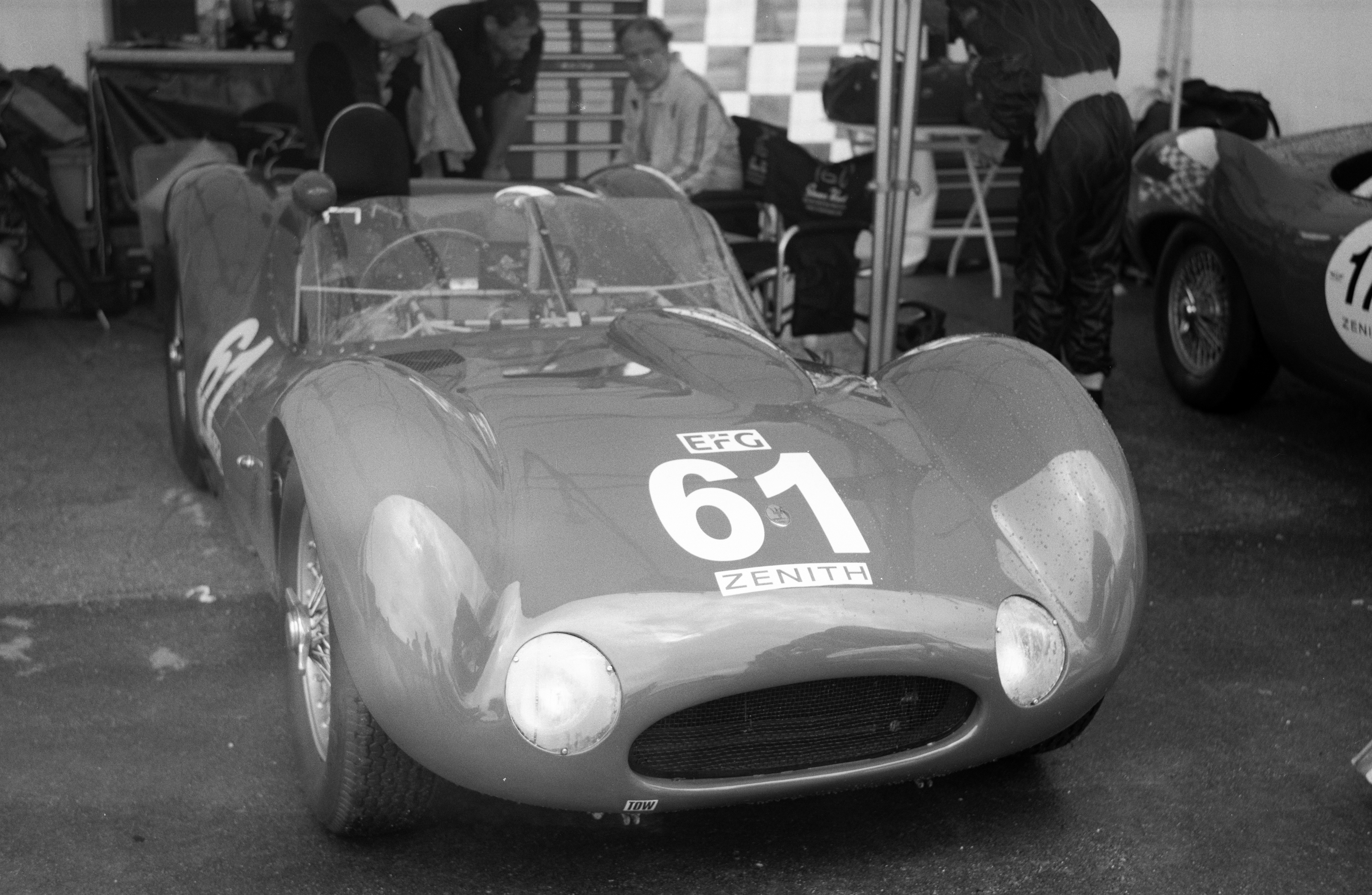 2018 Grand Prix de l’Âge d’Or in Dijon-Prenois - Maserati Tipo 61 "Birdcage", 1960 (owner and driver Guillermo Fierro seated behind in white racing suit). This photograph was taken with Ilford HP5 plus 400 film.